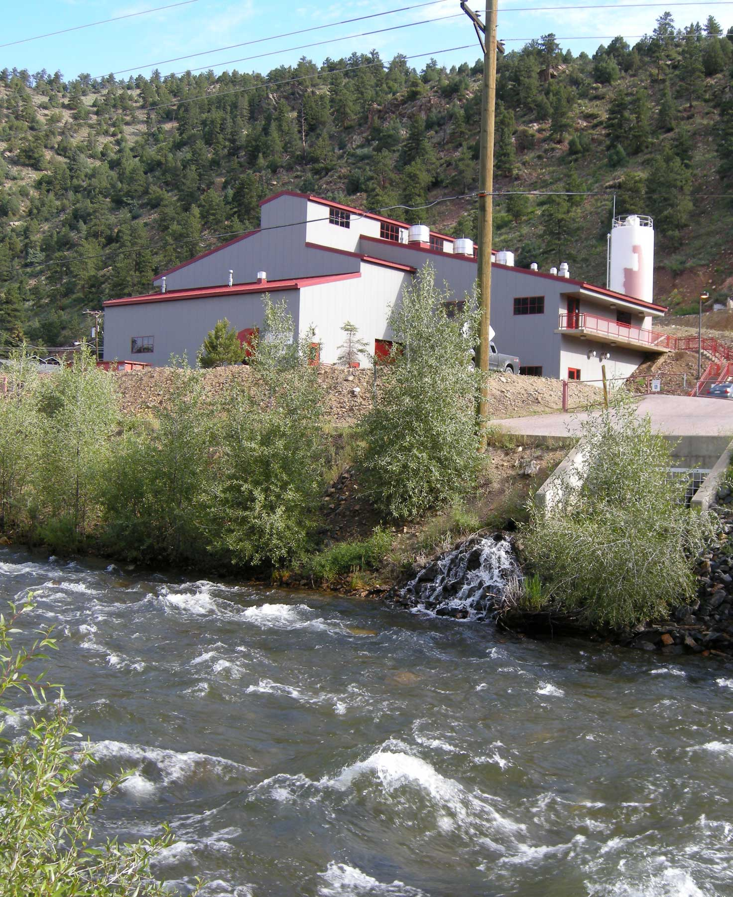 Acid mine drainage water treatment plant, Idaho Springs, Colorado, USA